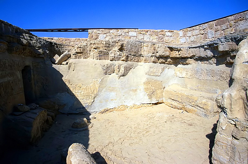 Inner hall of the tomb of Amenhotep Huy, el-Bahriya, Libyan desert, Egypt